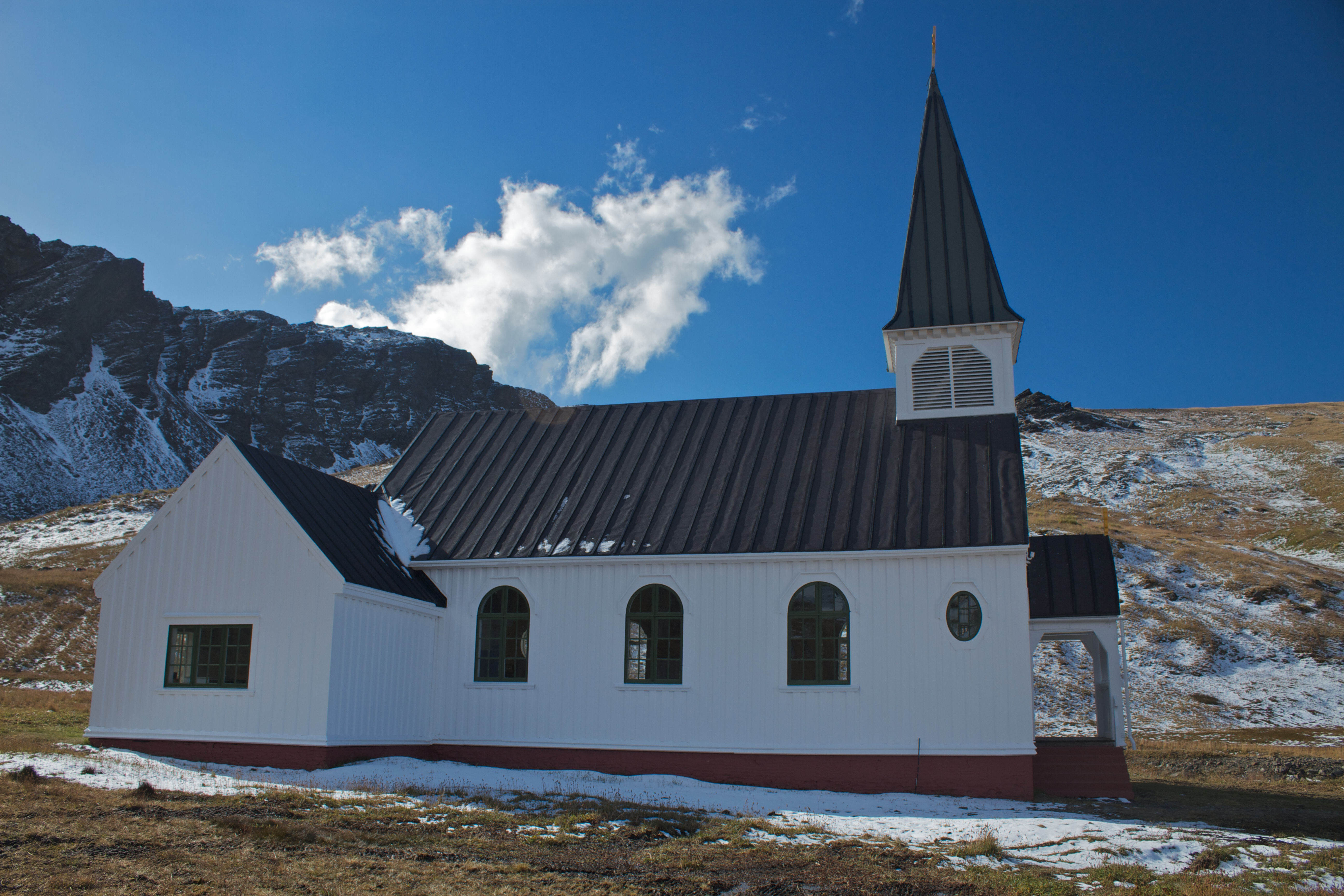 Norwegian Lutheran Church in Grytviken, South Georgia, was built in 1913 and was part of the Church of Norway.